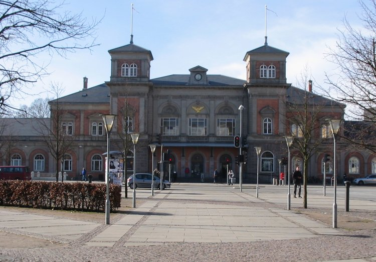 Aalborg